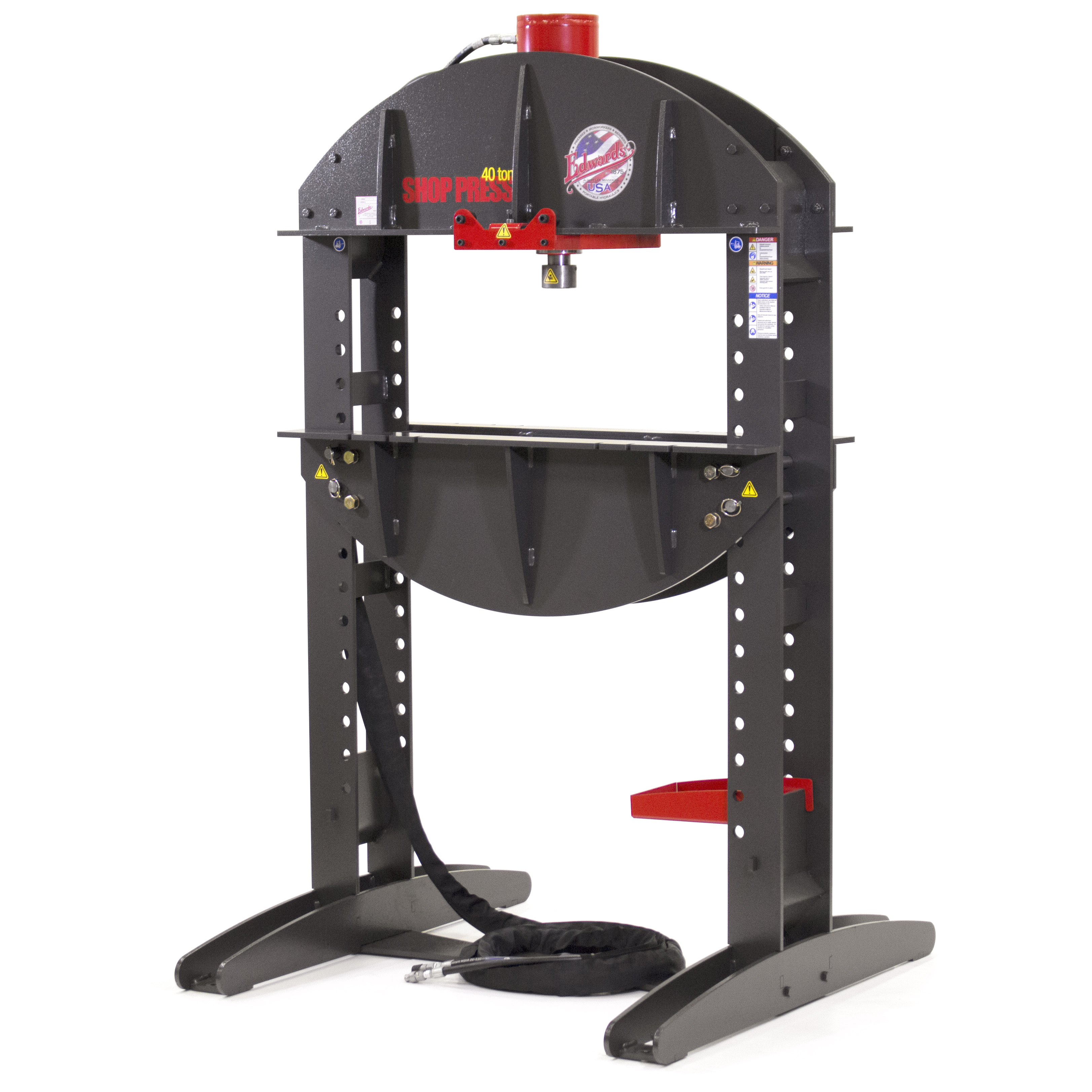 Edwards Hydraulic Accessory the 40 ton Shop Press